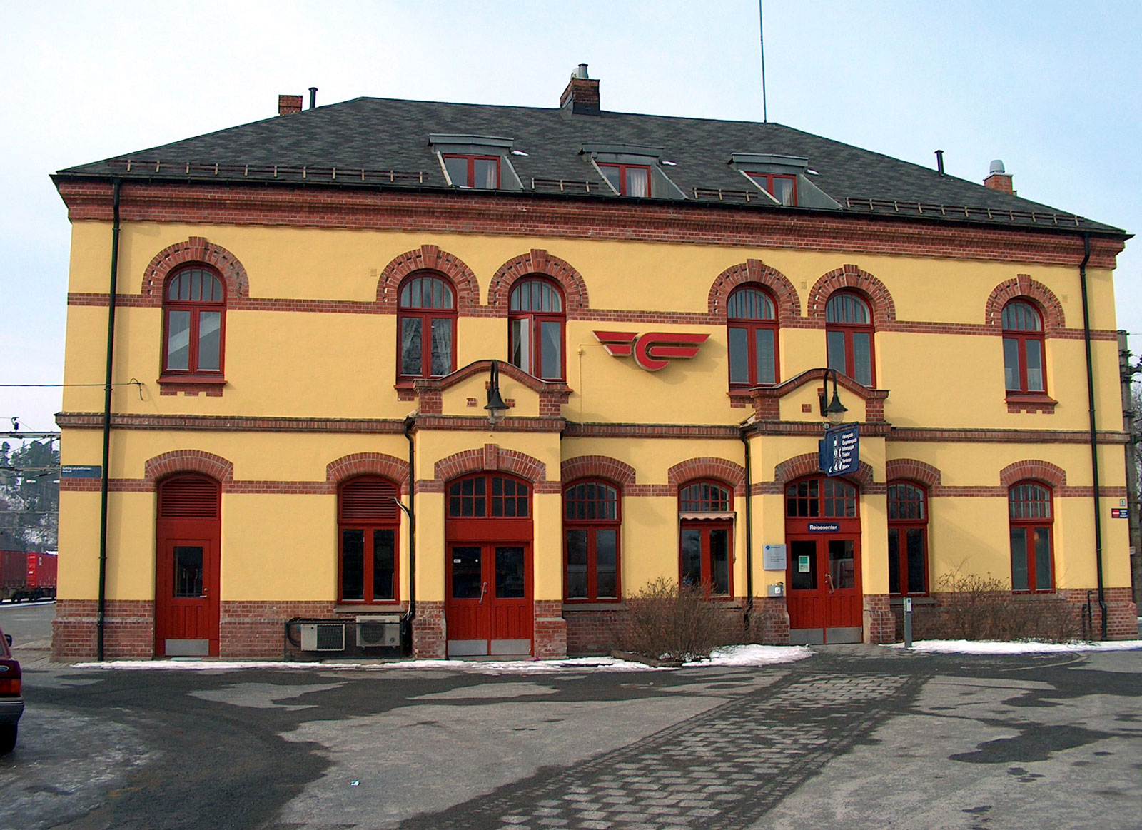 Hønefoss stasjon (Hønefoss Railway Station), view to the West